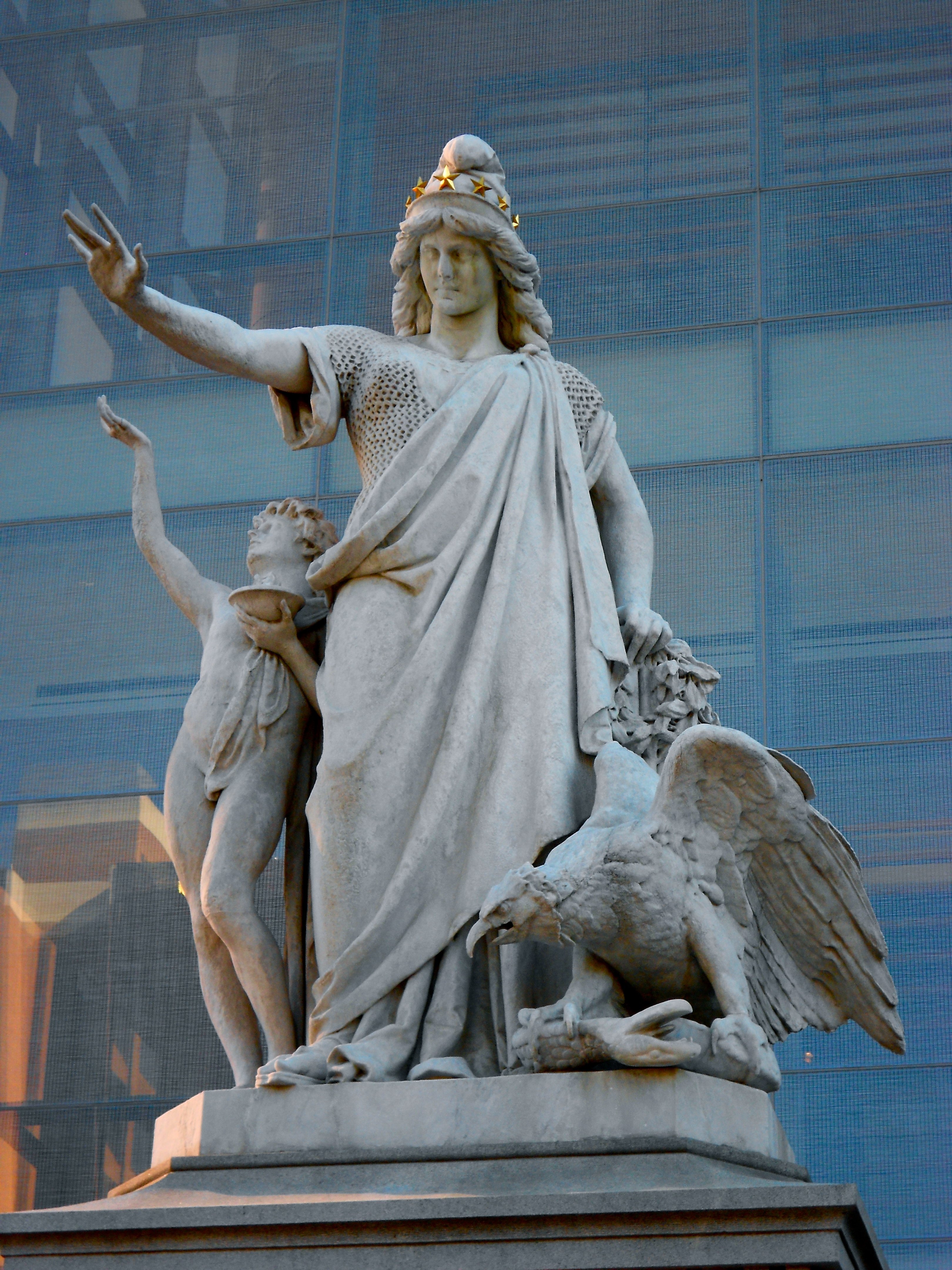 "Religious Liberty" was commissioned by B'nai B'rith and dedicated in 1876 to "the people of the United States" as an expression of support for the constitutional guarantee of religious freedom. Created by Moses Jacob Ezekiel, the first American Jewish sculptor to gain international prominence, the 25-foot marble monument was carved in Italy and shipped to Fairmount Park in Philadelphia for the nation's Centennial Exposition. It was moved to Independence Mall in 1985(?) and stands in front of the National Museum of American Jewish History.